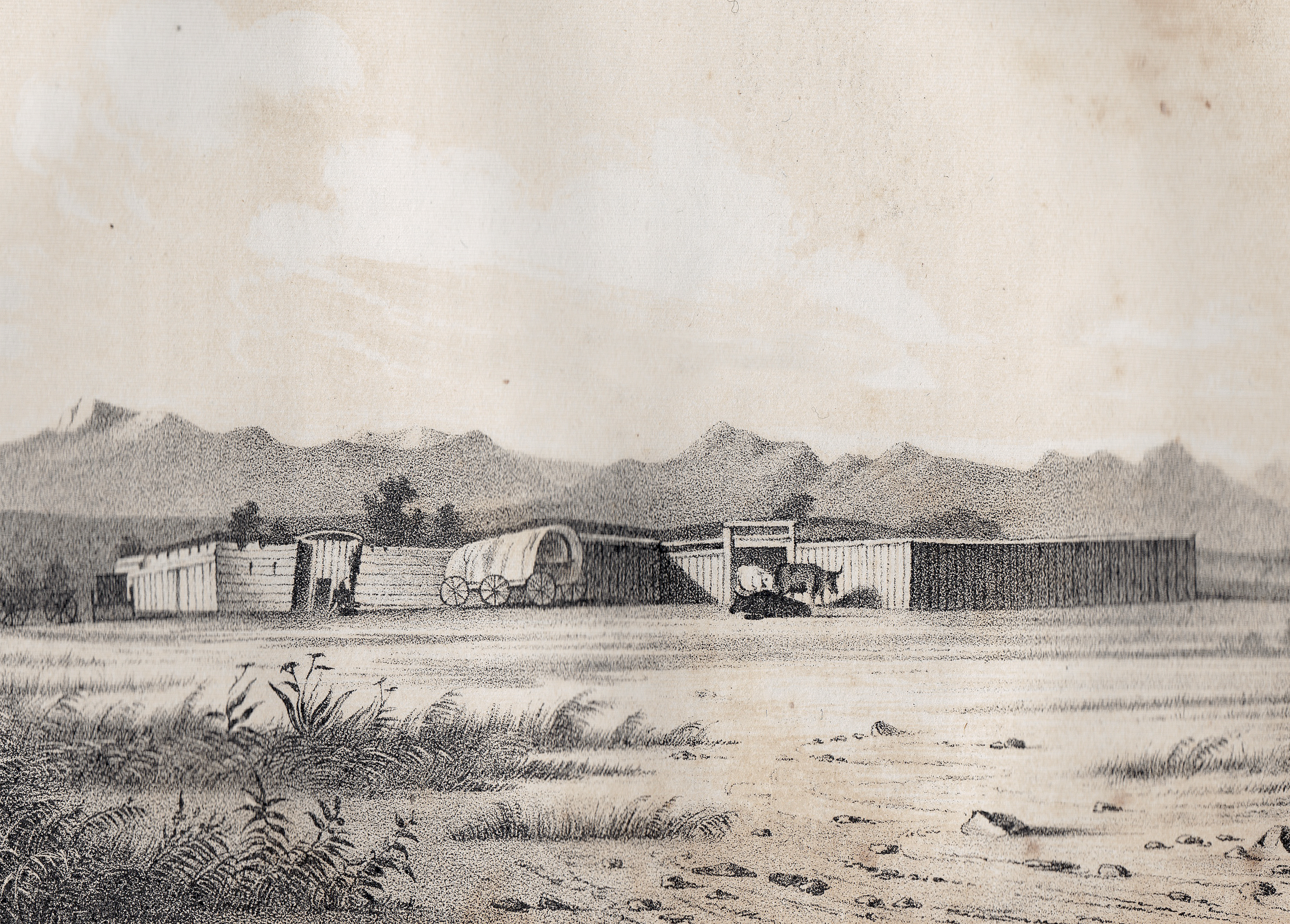 Fort Bridger on the Green River in 1851 (lithograph)